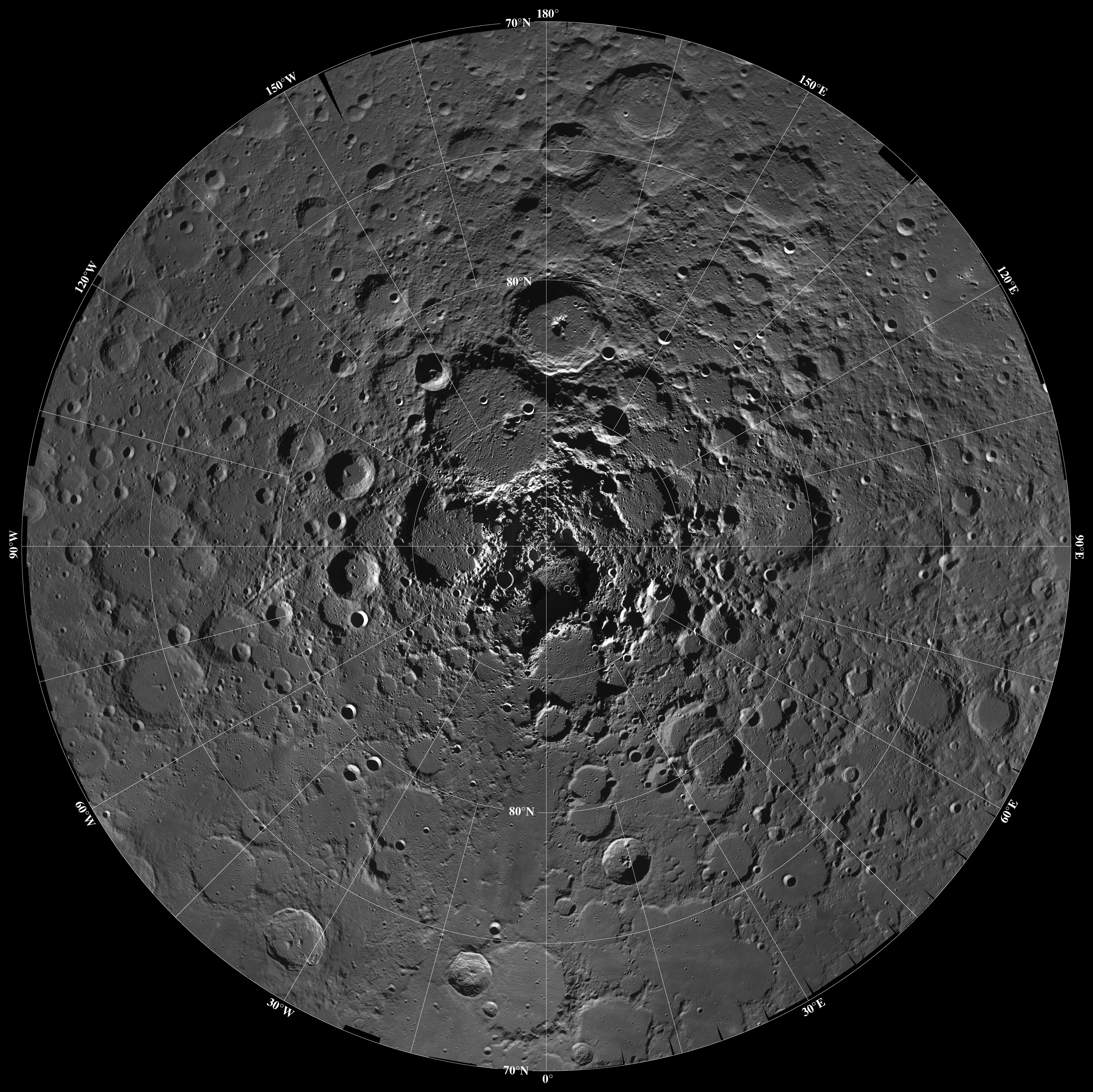 Lunar mosaic of ~1500 Clementine images of the north polar region of the moon. The projection is orthographic centered on the north pole. The polar regions of the moon are of special interest because of the postulated occurrence of ice in permanently shadowed areas. The north pole of the moon is absent of the very rugged terrain seen at the south pole.